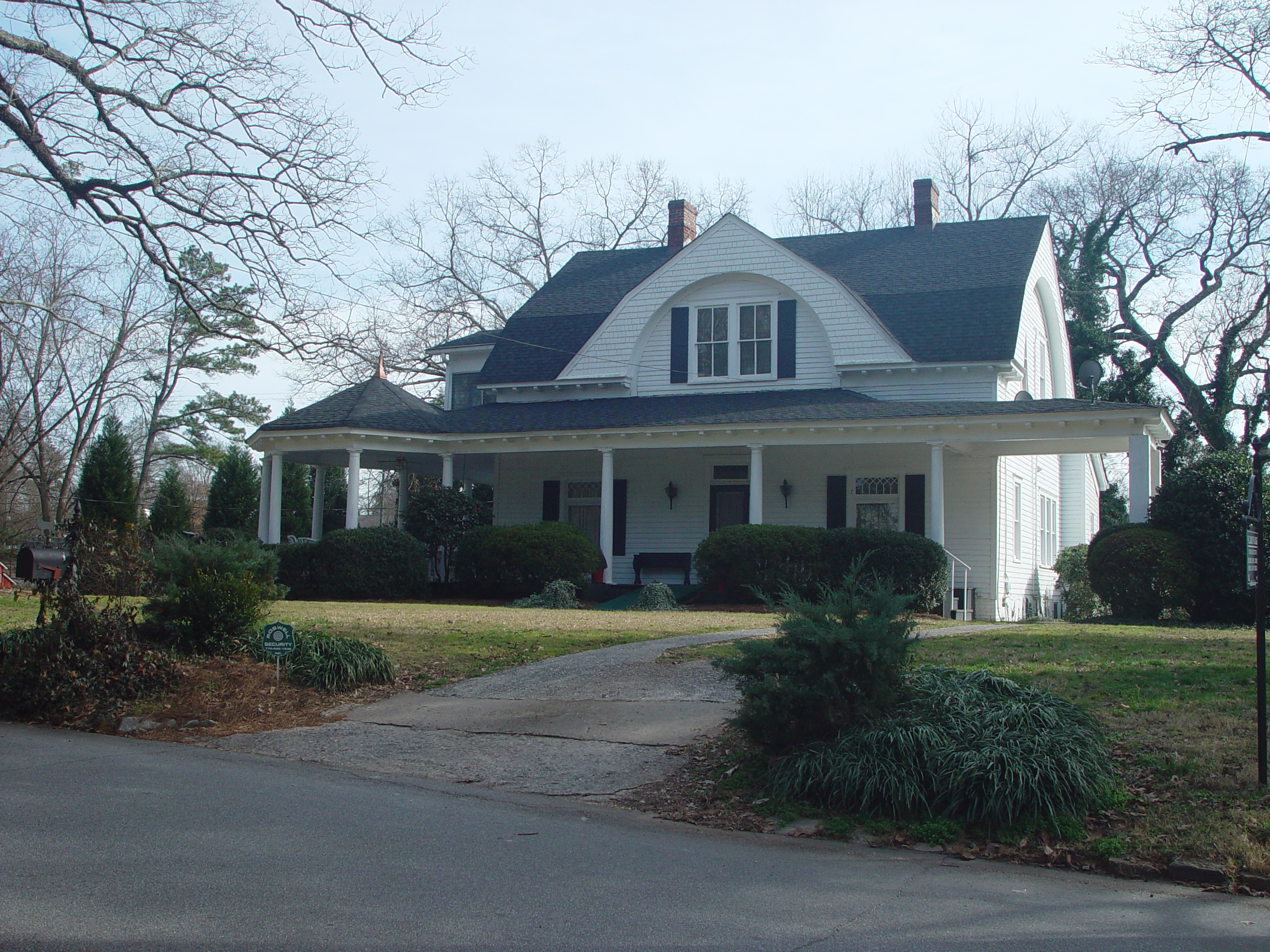 W.J. Dolvin Home, Roswell, Georgia, USA